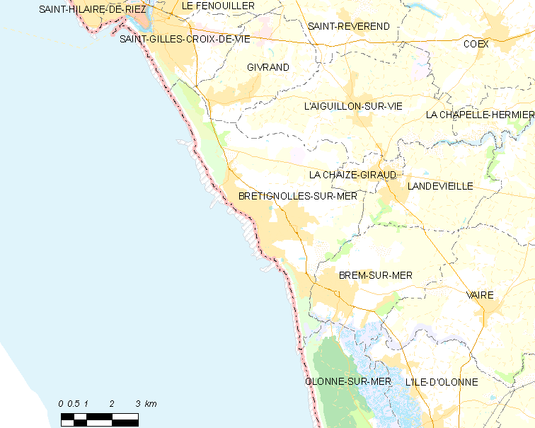 Map of French municipality Bretignolles-sur-Mer